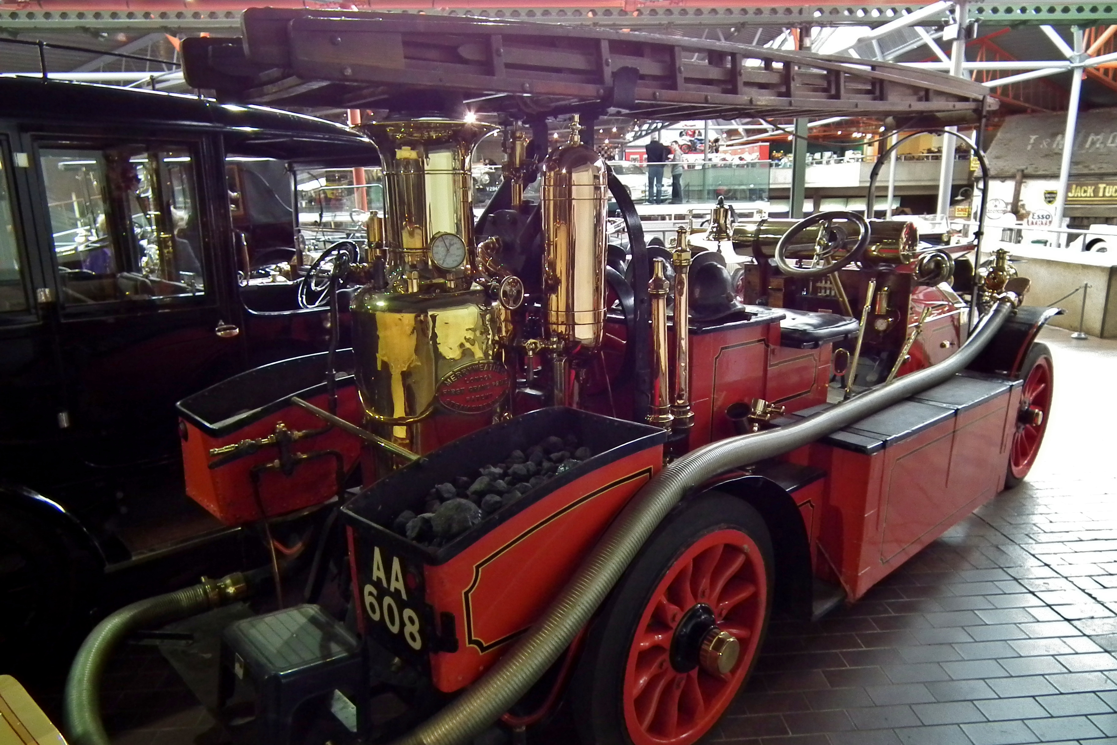 1907 Gobron Brillie Fire Engine. Taken at the National Motor Museum in Beaulieu, Hampshire, England.